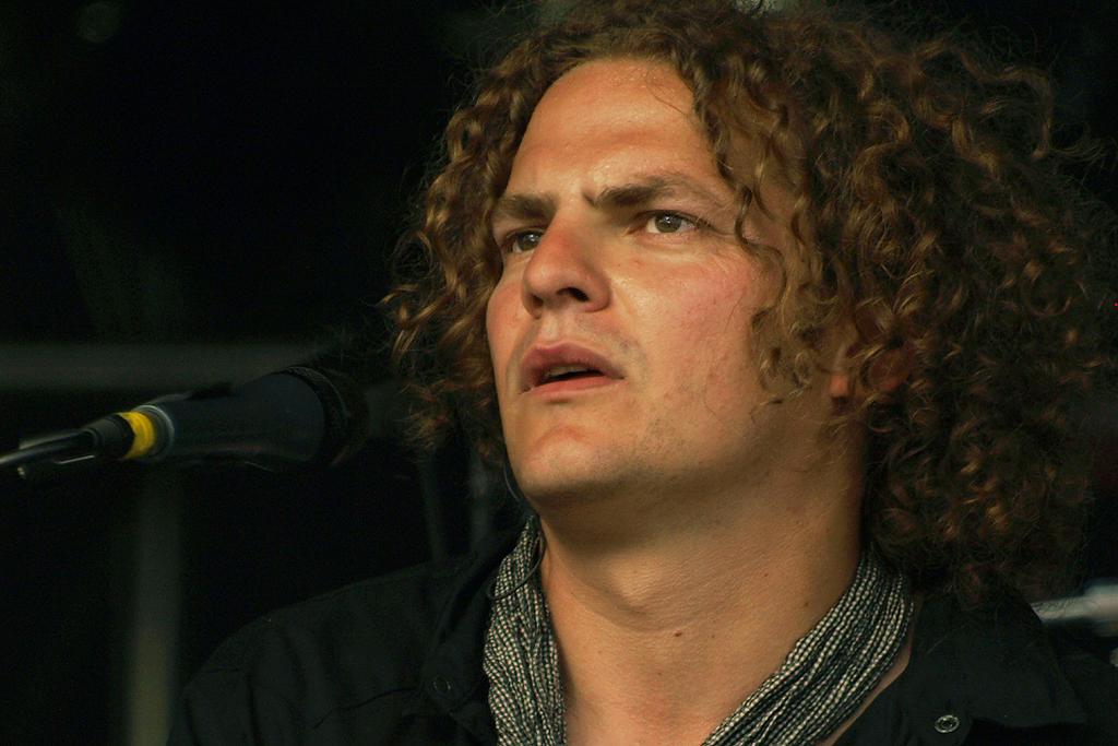 English alternative rock band Toploader's Joseph Washbourn performing with the band at Godiva Festival 2009